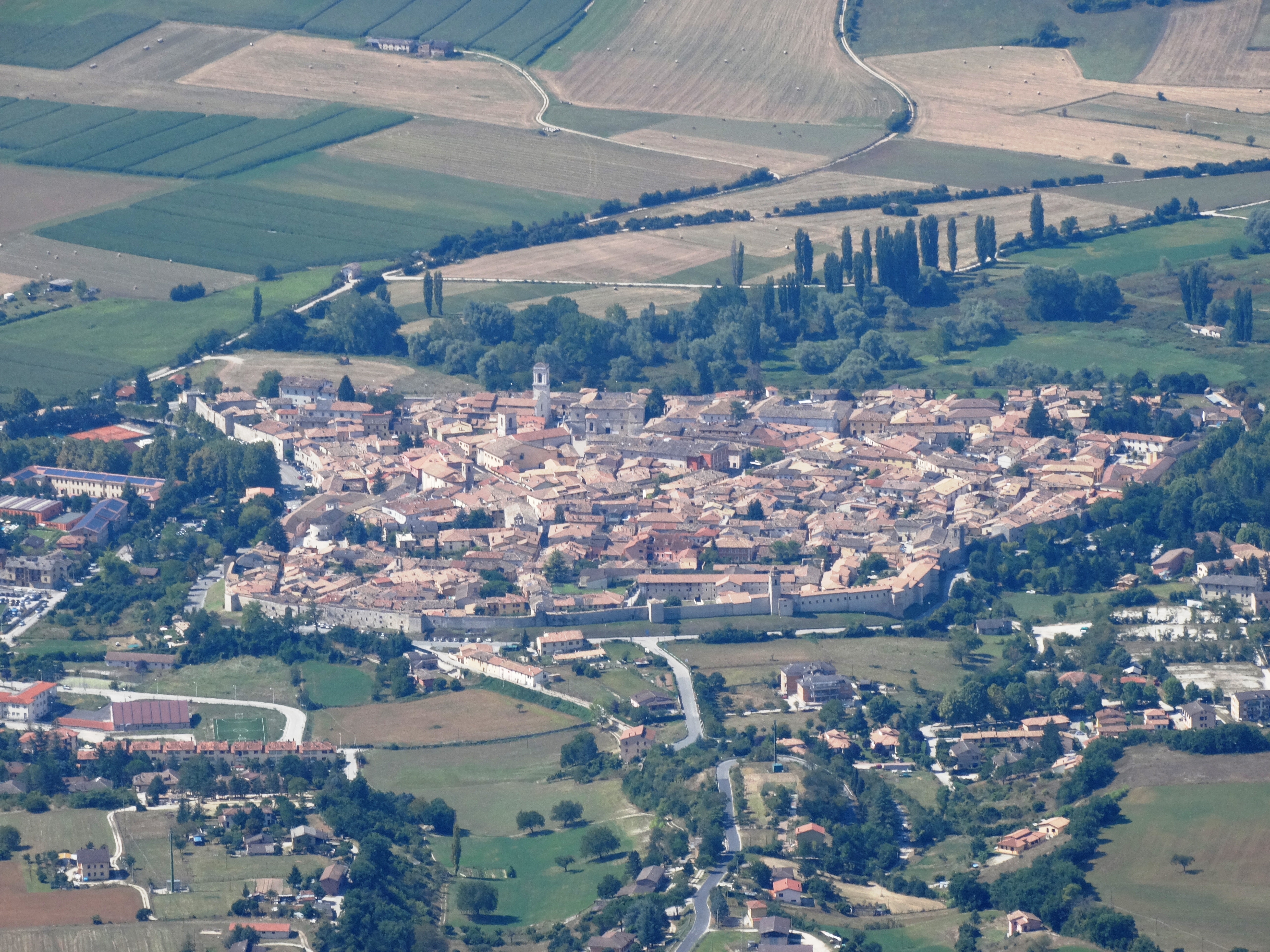 view of Norcia (PG - Italy) from Patino Mountain